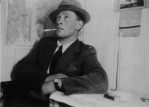 Halvor Bartholdsen